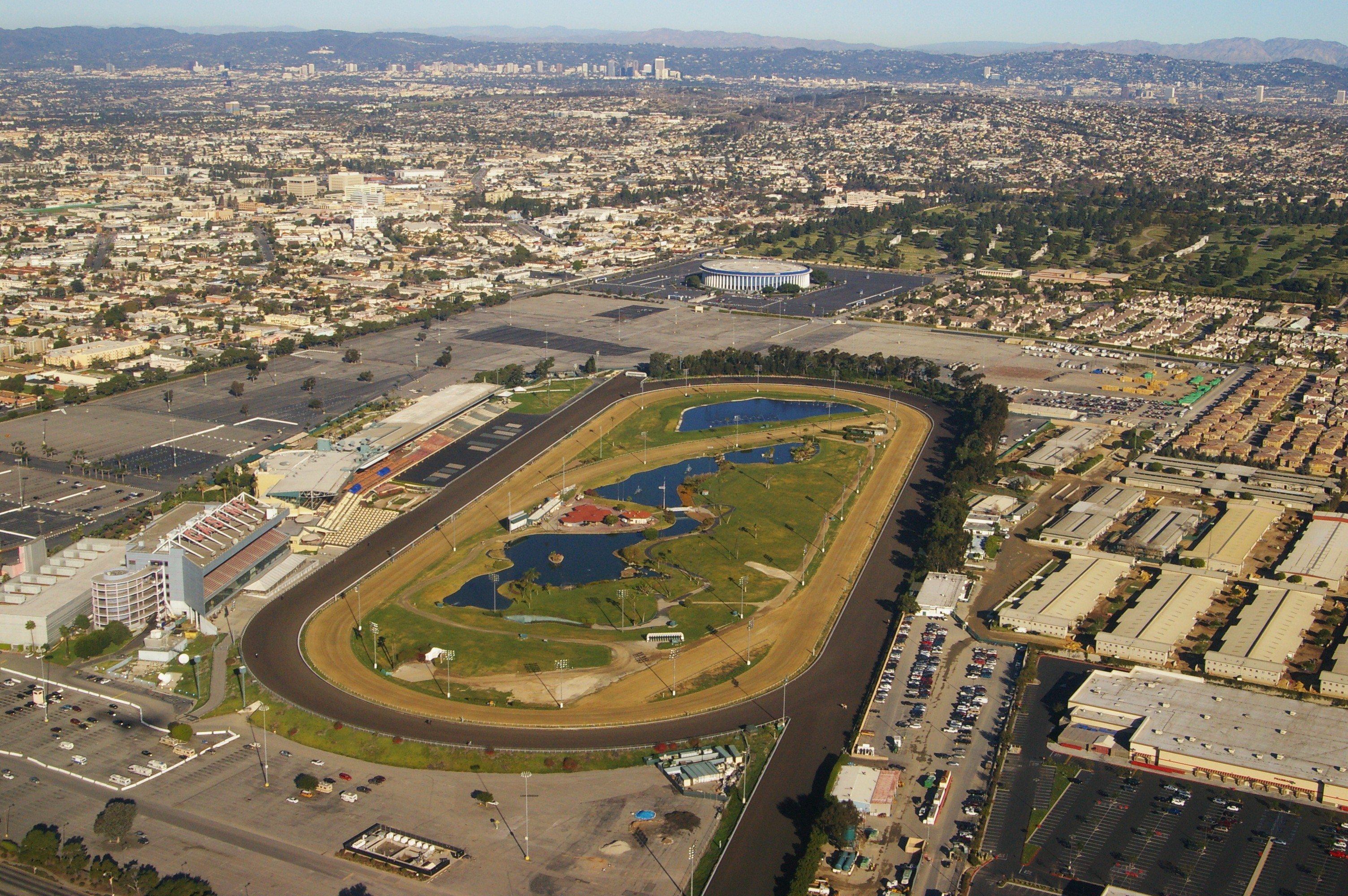 Aerial photograph of Hollywood Park.